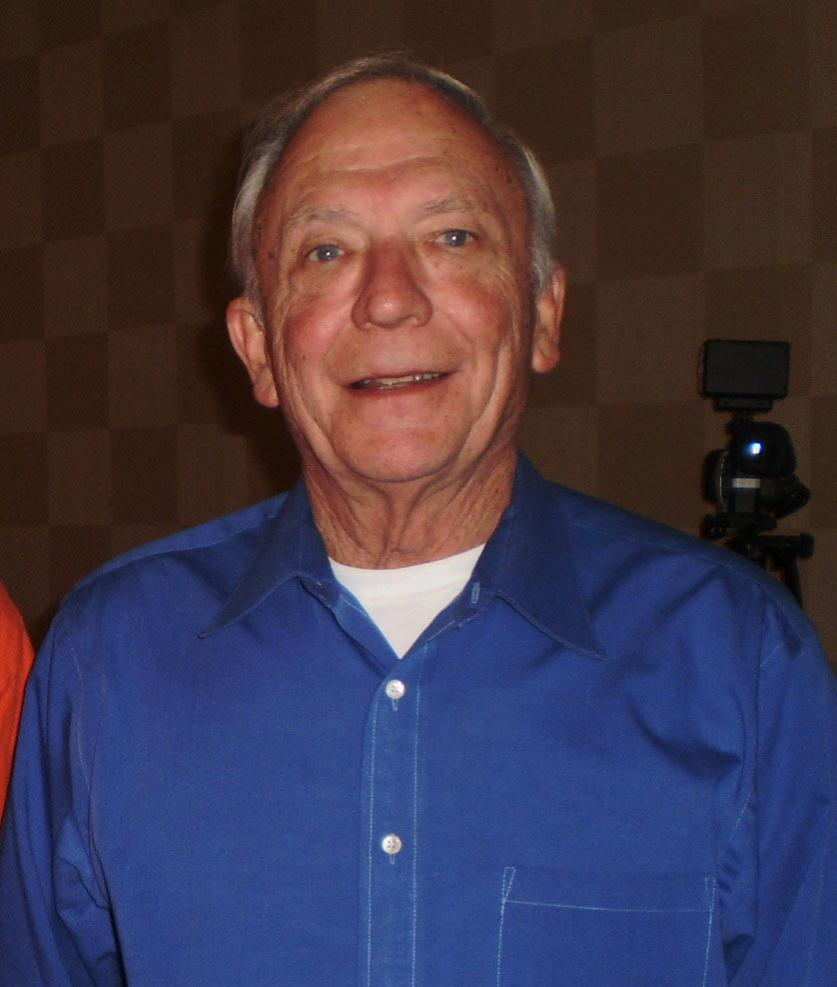 Stephen Max "Steve" Thompson (born 1944) is an American politician. Thompson is a Republican member of the Alaska House of Representatives since 2011, representing the eastern portions of Fairbanks and eastern suburbs of Fairbanks such as Badger and Steele Creek. Thompson was also mayor of the city of Fairbanks 2001–2007, and is also the retired president and CEO of a small business operating throughout the Fairbanks area. Photo likely taken at the Westmark Fairbanks Hotel on November 2, 2010. Thompson was cropped out of larger original photo.